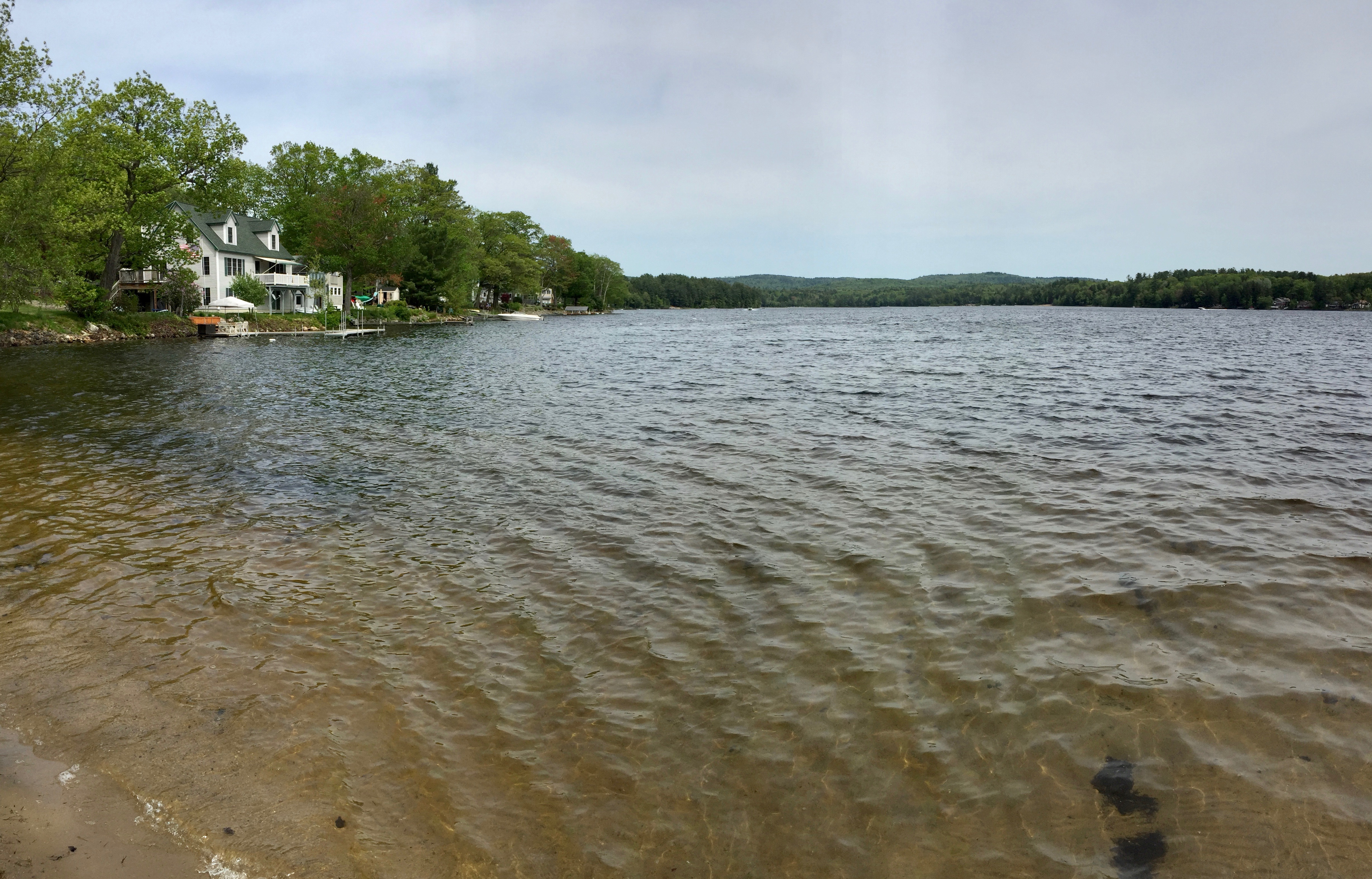 Halfmoon Lake (Barnstead, New Hampshire), at Barnstead/Alton town line